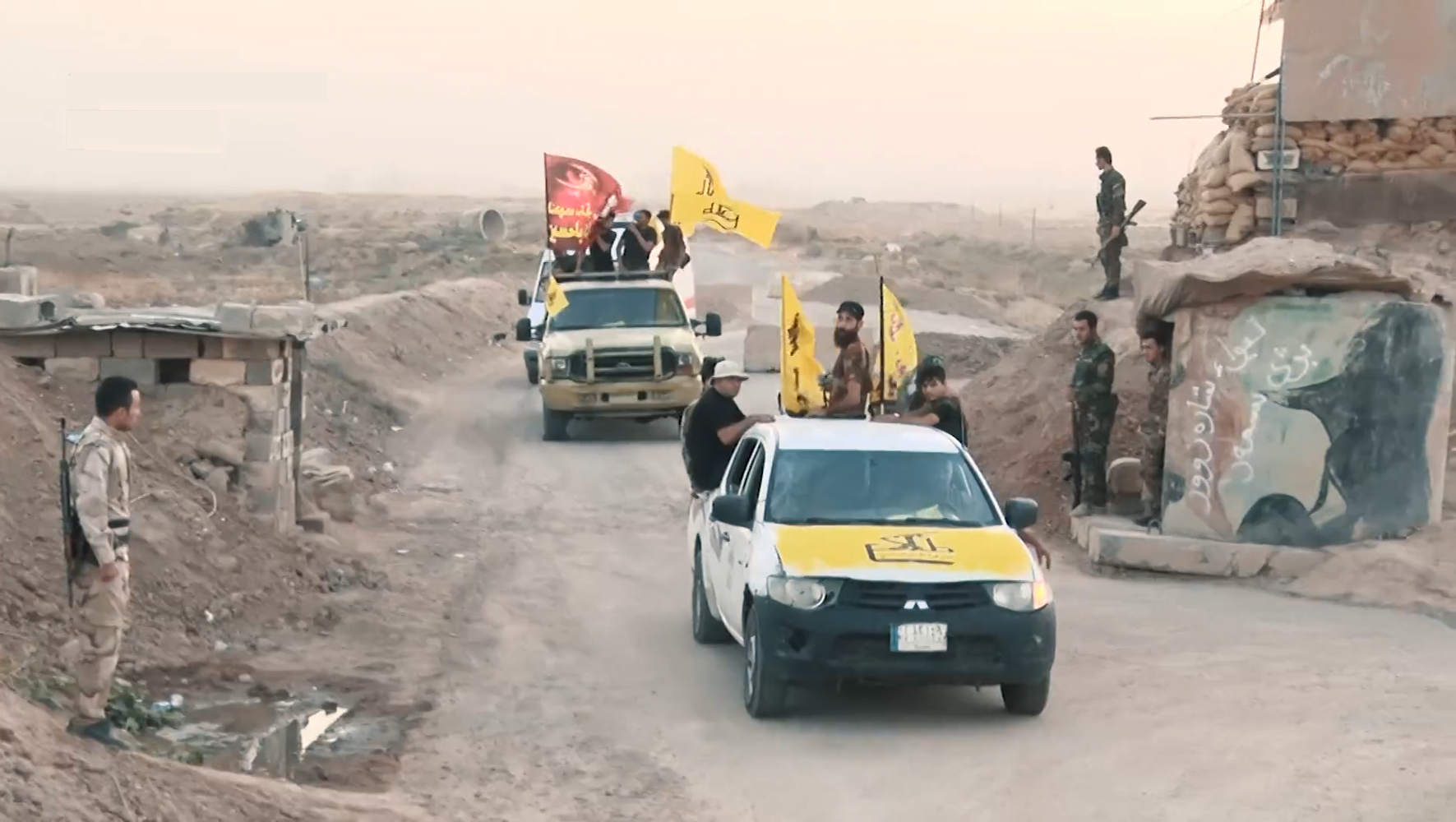 Popular Mobilization Forces during the Hawija offensive in 2017.